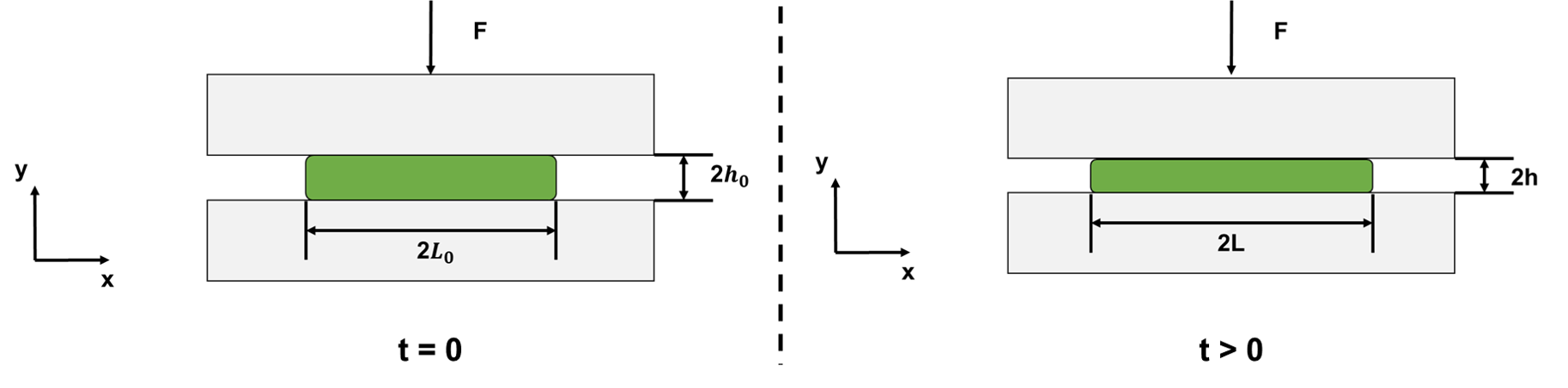 This diagram depicts squeeze flow of a generic Newtonian material between two parallel plates.